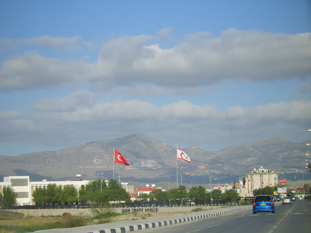 Turkish Cypriot and Turkish flags and the Atatürk monument (on the right) in the boundary of Yenikent/Ortaköy neighborhoods of northern Nicosia. The Turkish Cypriot flag on the Başparmak Mountains is visible. The flags and the monument were erected by the Turkish Cypriot Civilian Defense Organization in late 2000s. The area seen on the right is busy with many shops and a shopping mall. The building seen on the left is the Bayraktar College (Bayraktar Türk Maarif Koleji).